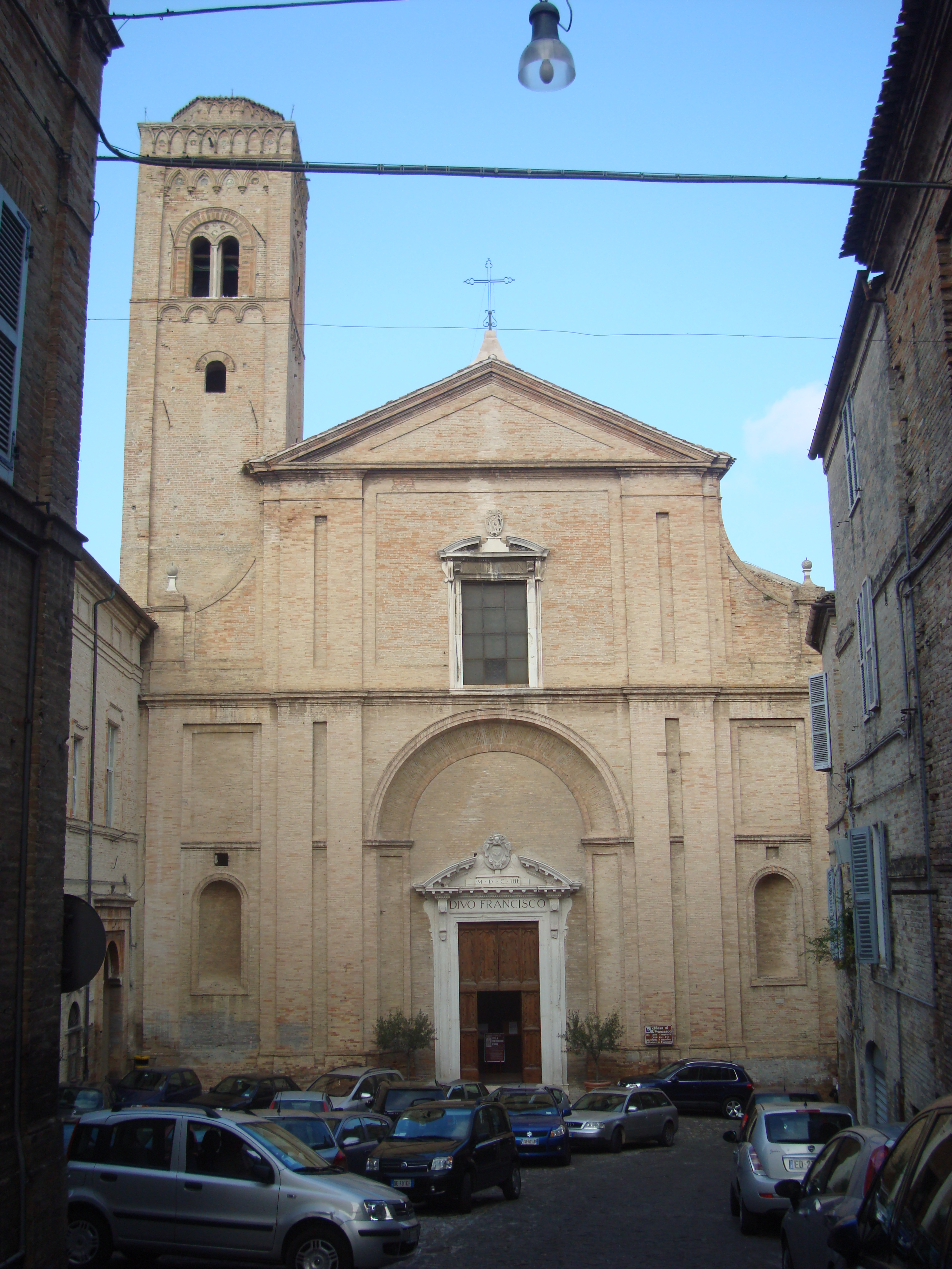 The facade of the San Francesco church in Fermo